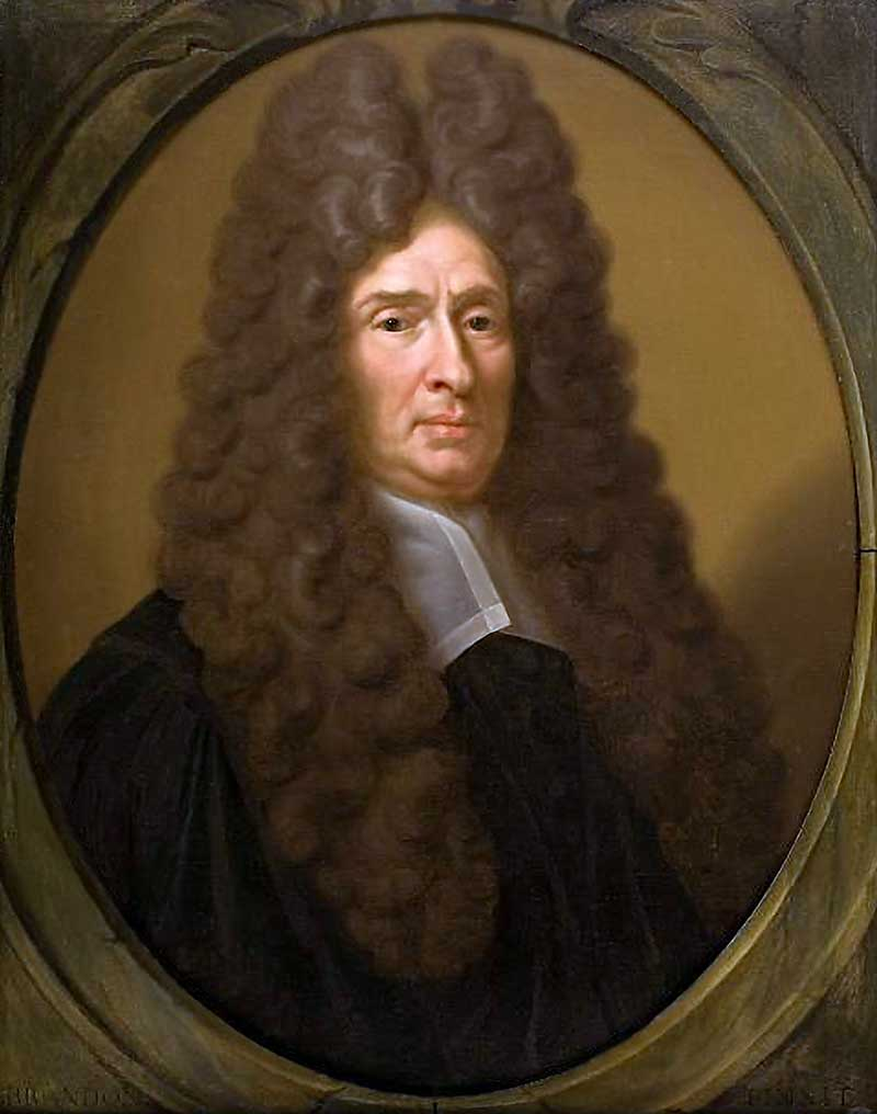 Philipp Reinhard Vitriarius (1647-1720) German lawyer